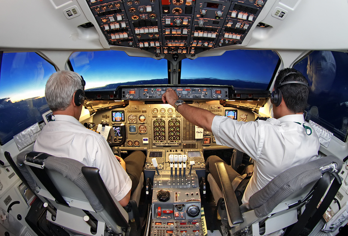 Mahan Air Avro RJ100 cockpit